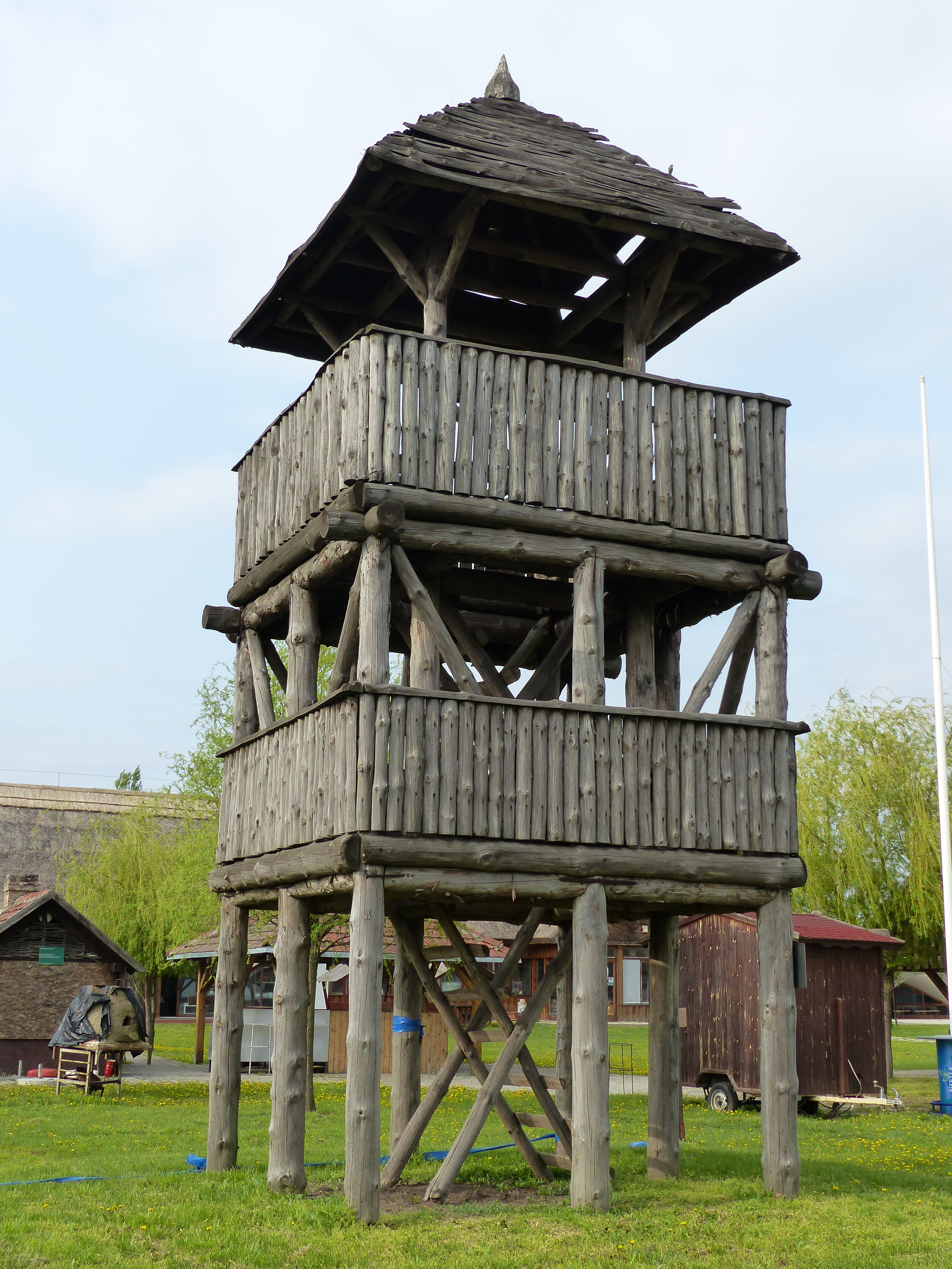 Limes watchtower (4. – 5. century, reconstruction). Taken on the 11th of April, 2016. Archeopark, Polgár, Hungary.